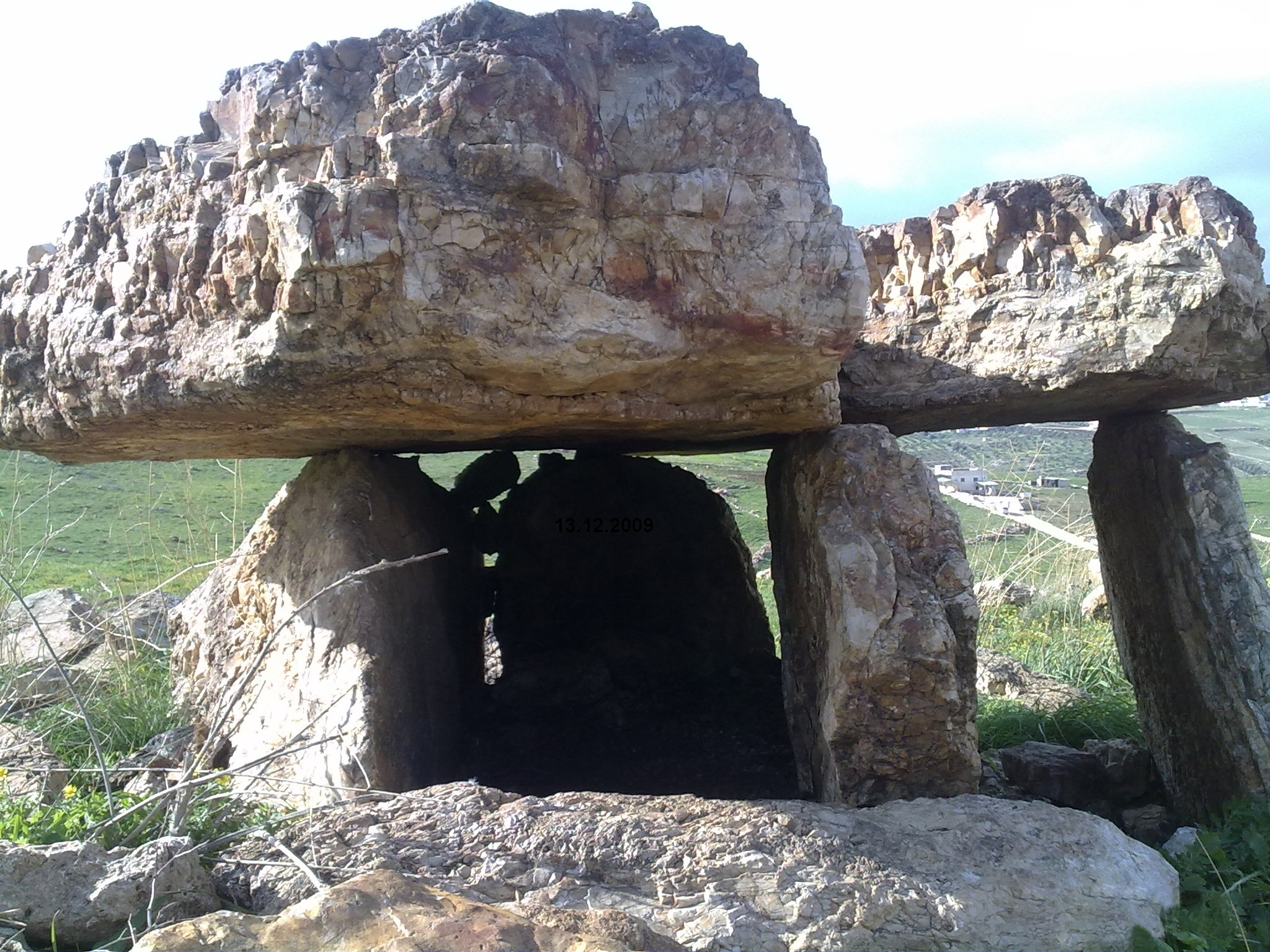 Dolmen in the historical village Johfiyeh in Jordan